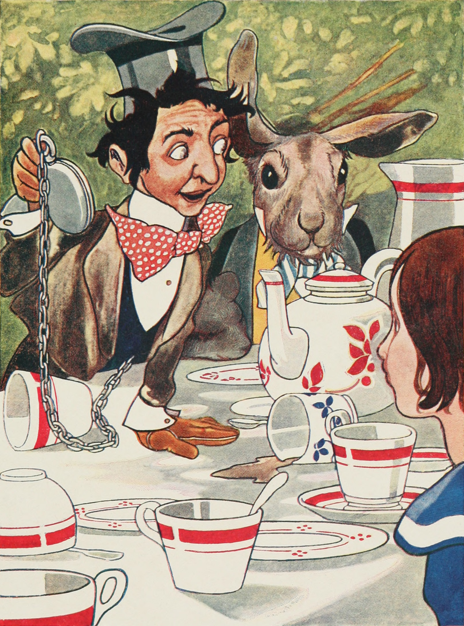 A coloured plate. Caption: “What day of the month is it?” he said, turning to Alice.